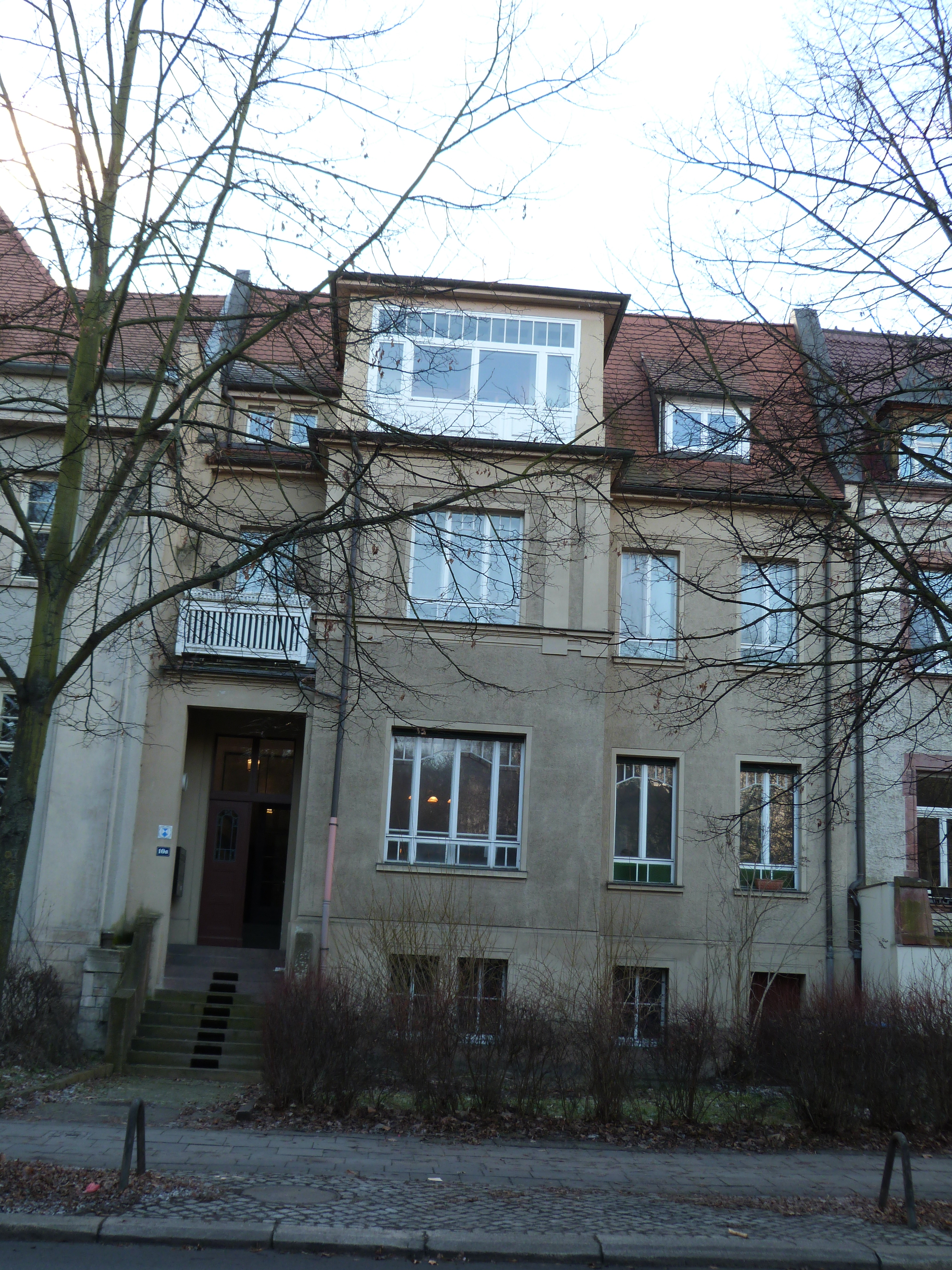 House No. 10a Robert-Franz-Ring in Halle (Saale)